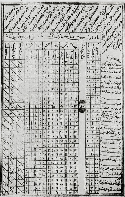 An extract from a 500-page plus table of timekeeping by the stars by Muhammad al-Qunawi (Muhammad ibn al-Katib Sinan). Columns represent each degree of right ascensions of culminating stars, from 134° to 141° in this excerpt. Rows represent each degree of solar longitude, within Aquarius in this excerpt. Each cell represents the time as a function of the row and column. See Muhammad al-Qunawi#On timekeeping by the stars or King 1977, pp. 248, 260 for more details